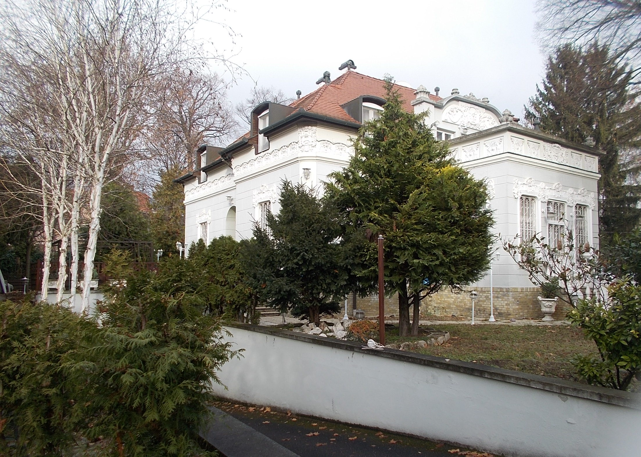 Ornamented villa. - 16 Szilágyi Mihály and Zsélyi Aladár streets cnr., Mátyásföld, 16th district of Budapest.